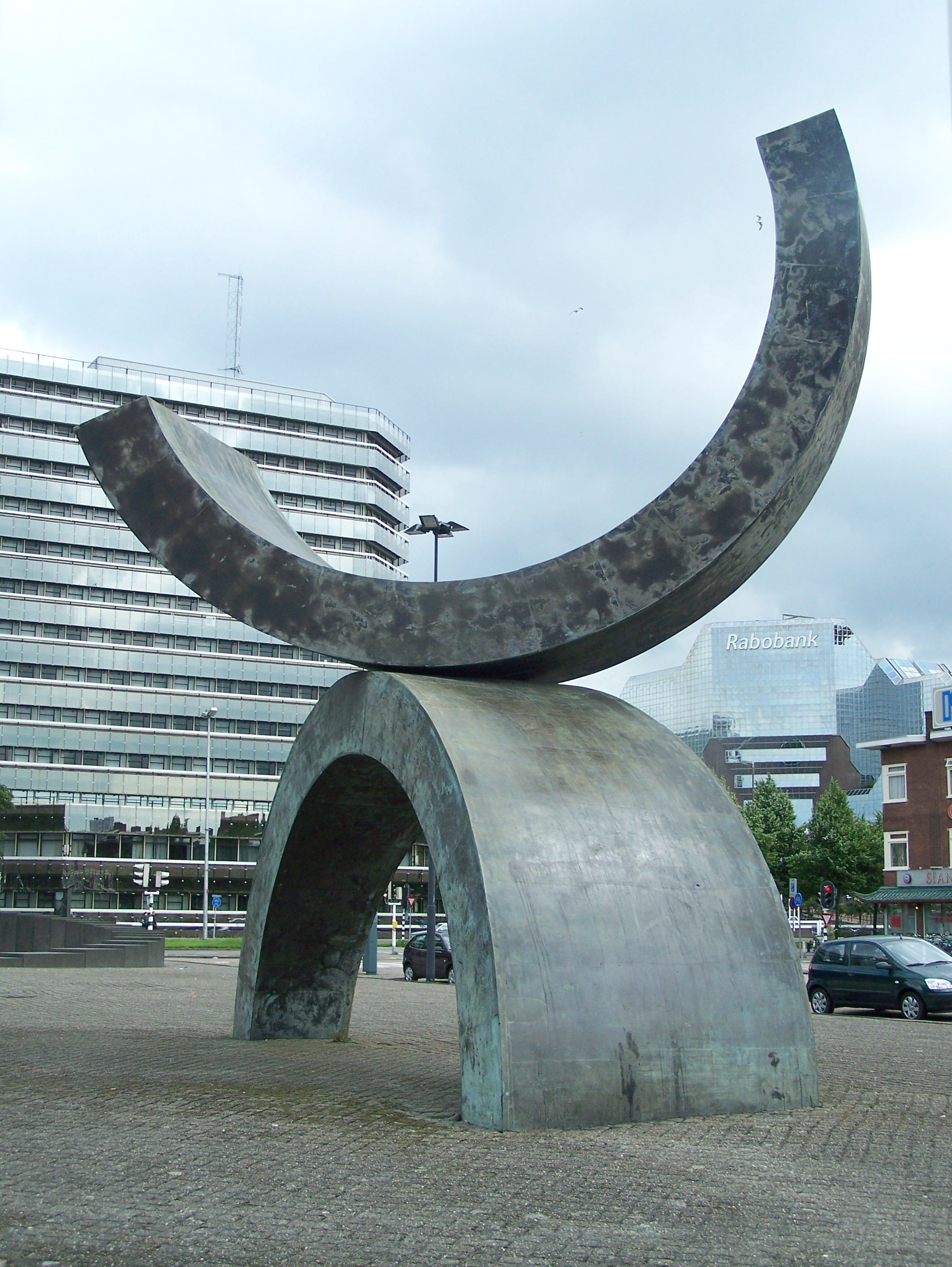 Third Five elements of basalt and steel by André Volten. Placed in front of the Jaarbeurs in Utrecht in 1982. Created by the artist in 1980.